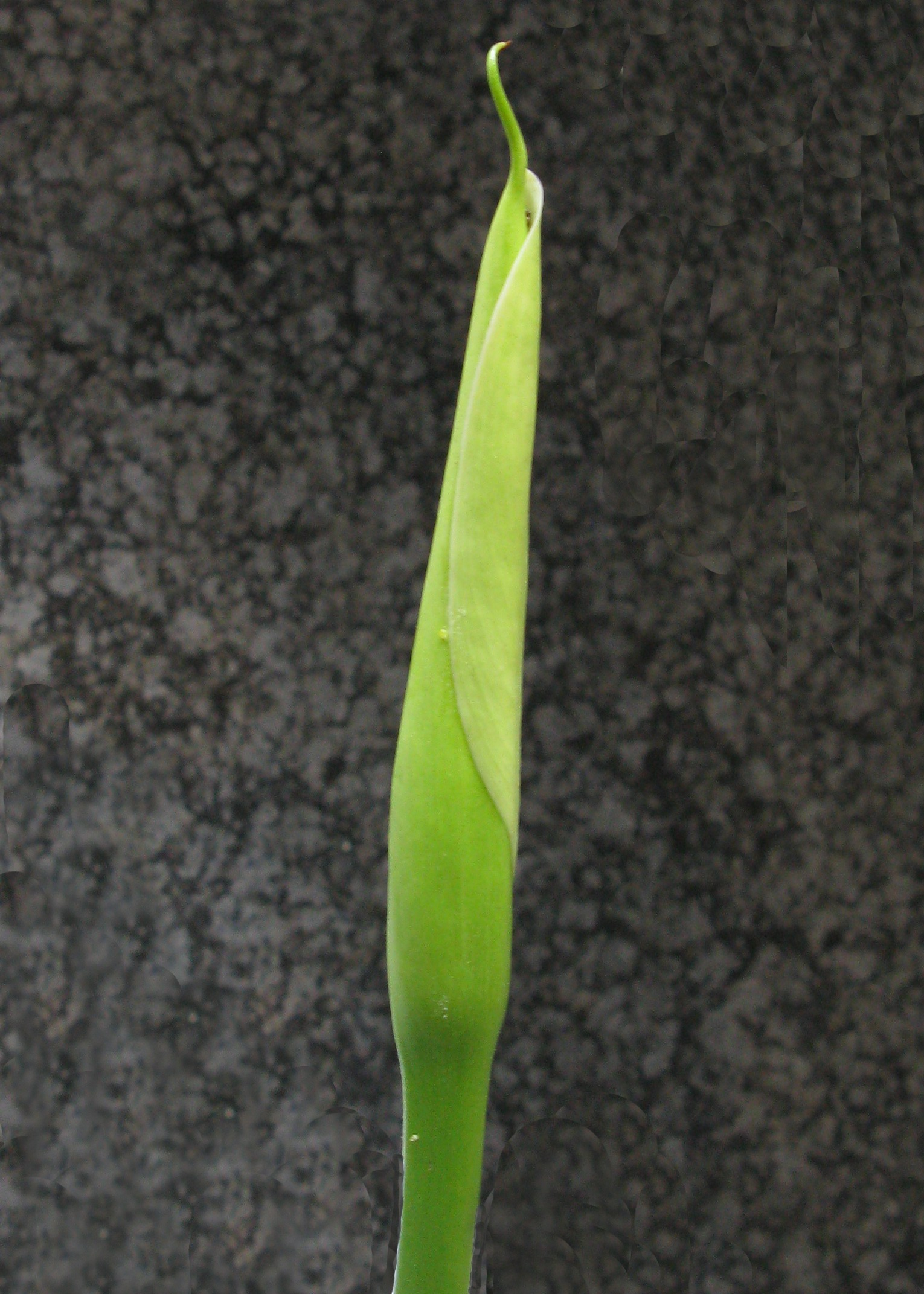 A single leaf or bract is convolute when one edge overlaps the opposite edge, commonly wound round the inflorescence in the bud stage